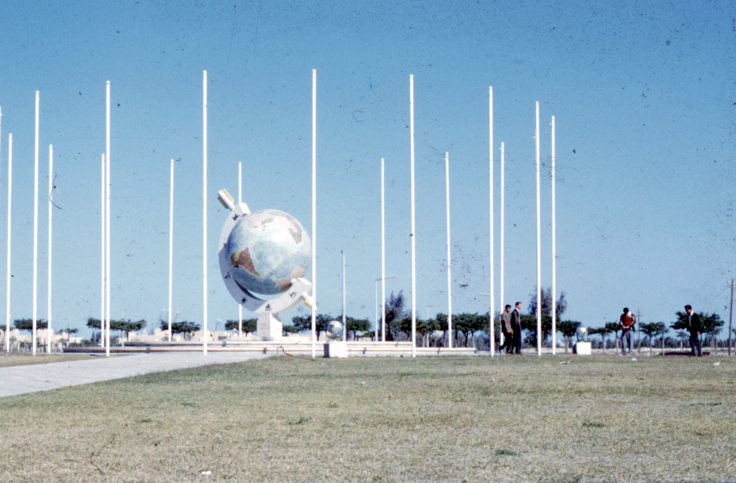 shuwaikh high-school 1961